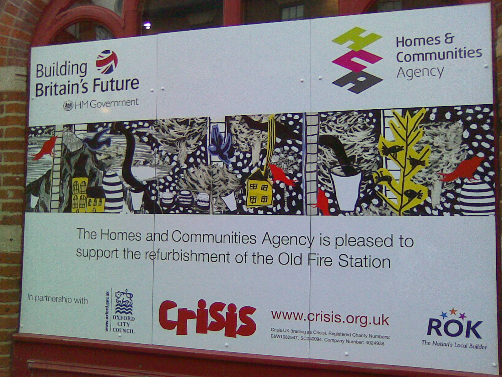 Refurbishment notice at Old Fire Station, Oxford.